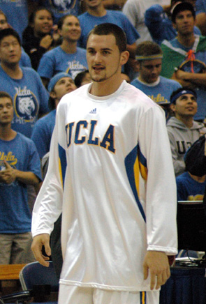 Kevin Love, professional basketball player.